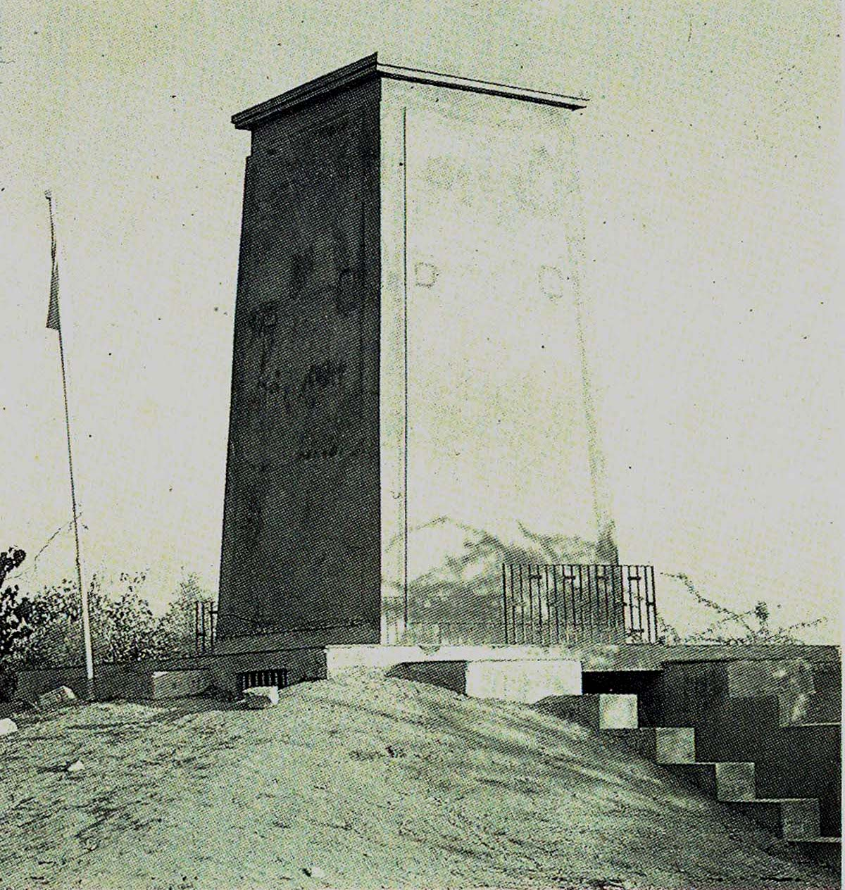 Cenotaph at Khejarli in Rajasthan in memory of Bishnoi martyrs